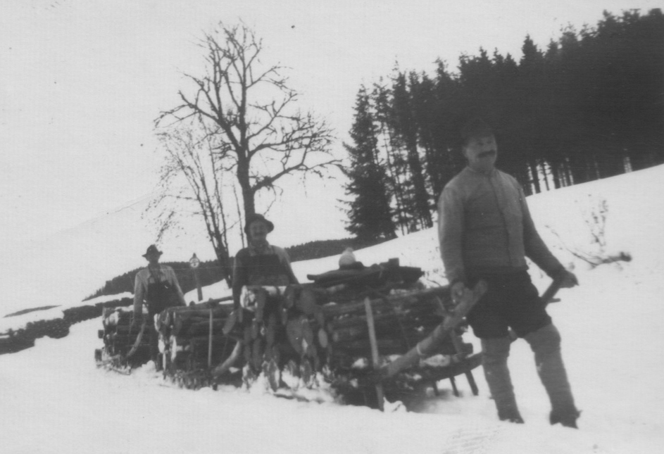 Transporting wood on wooden sleighs in the Black Forest